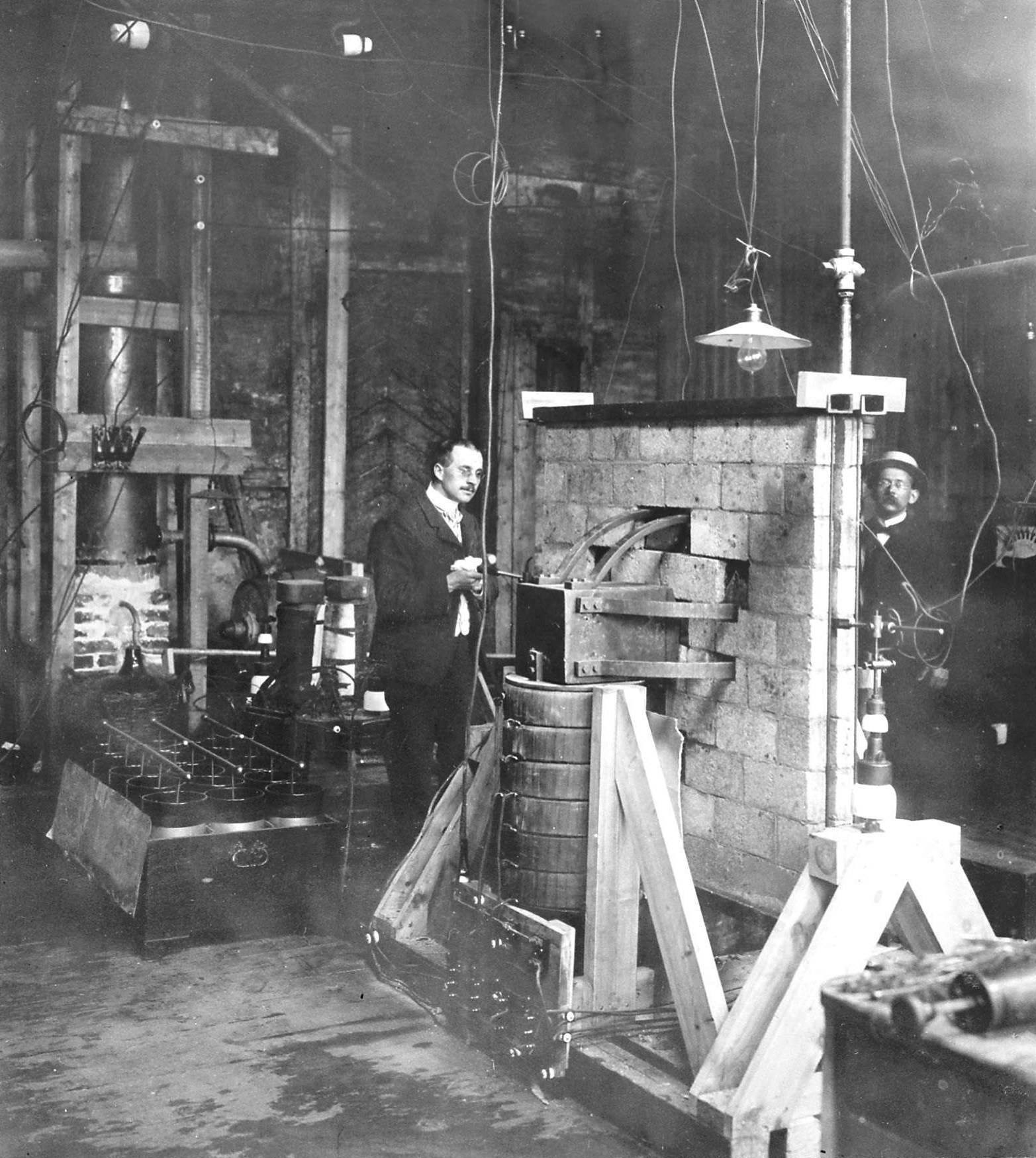 Norsk Hydro's research plant for fertilizer production in Frognerkilen, Norway: 5 kW and 30 kW ovens. From the trials that led to the Birkeland-Eyde method. Eivind Boys Næss (probably) to the left and Kristian Birkeland. Norsk Teknisk Museum Inventarnr. NTM C 23865